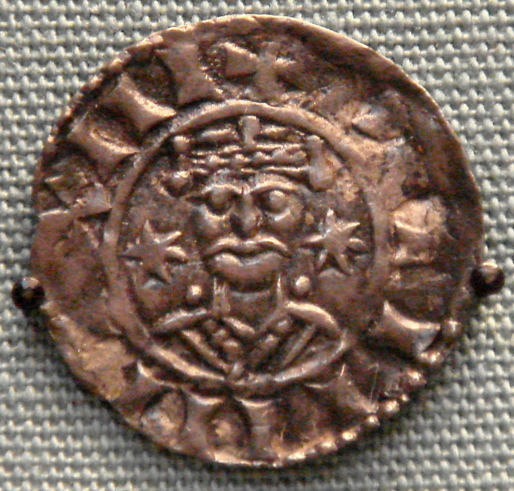 William_I_silver_penny_c_1075_moneyer_Oswold_at_the_mint_of_Lewes